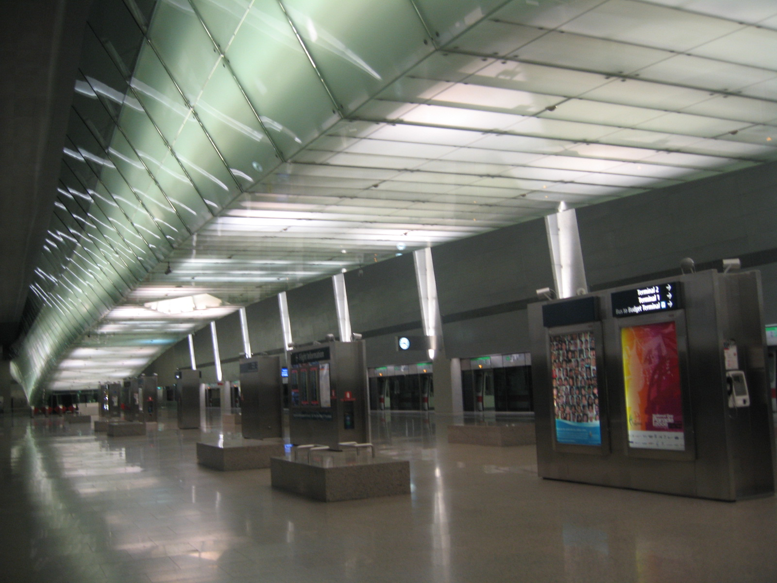 Changi Airport MRT Station.